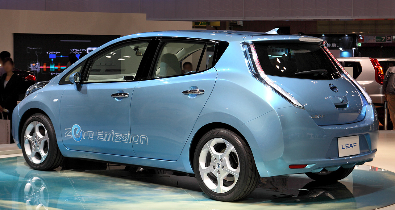 Nissan Leaf at Tokyo Motor Show (RHD).